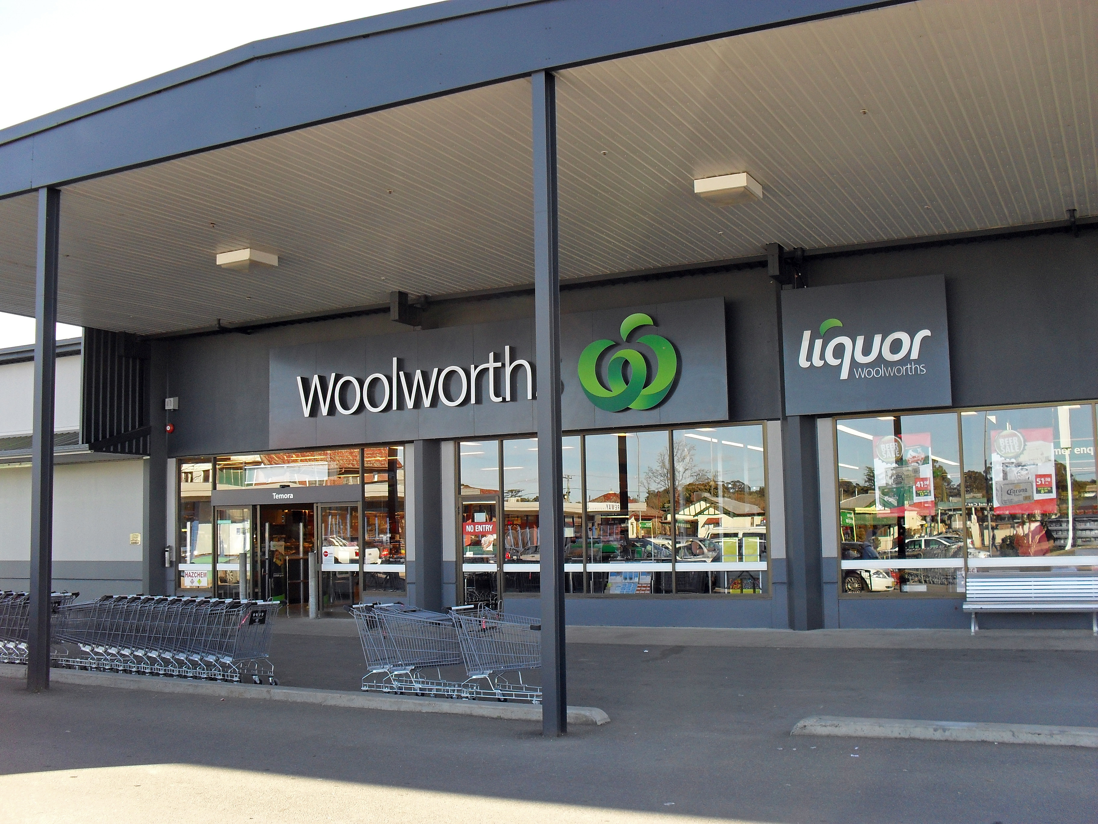 Woolworths supermarket in Temora, New South Wales